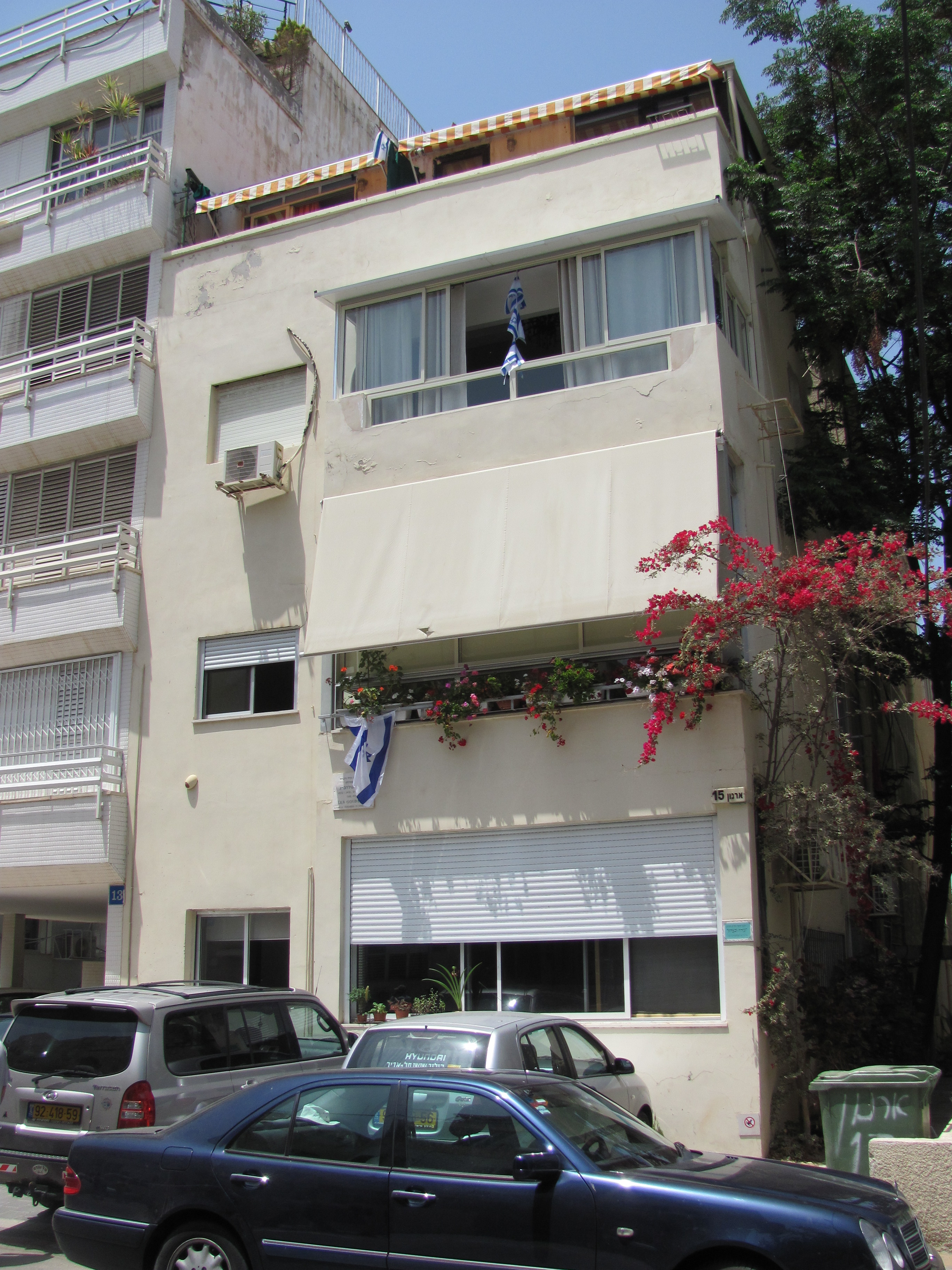 The house on 15 Arnon st, Tel Aviv, in which Leah Goldberg lived.